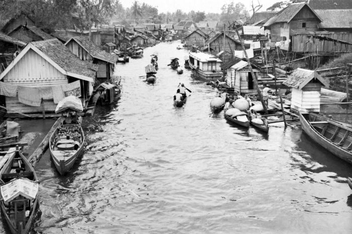 Proas on a sideriver of the Martapura-river at Banjarmasin, Kalimantan